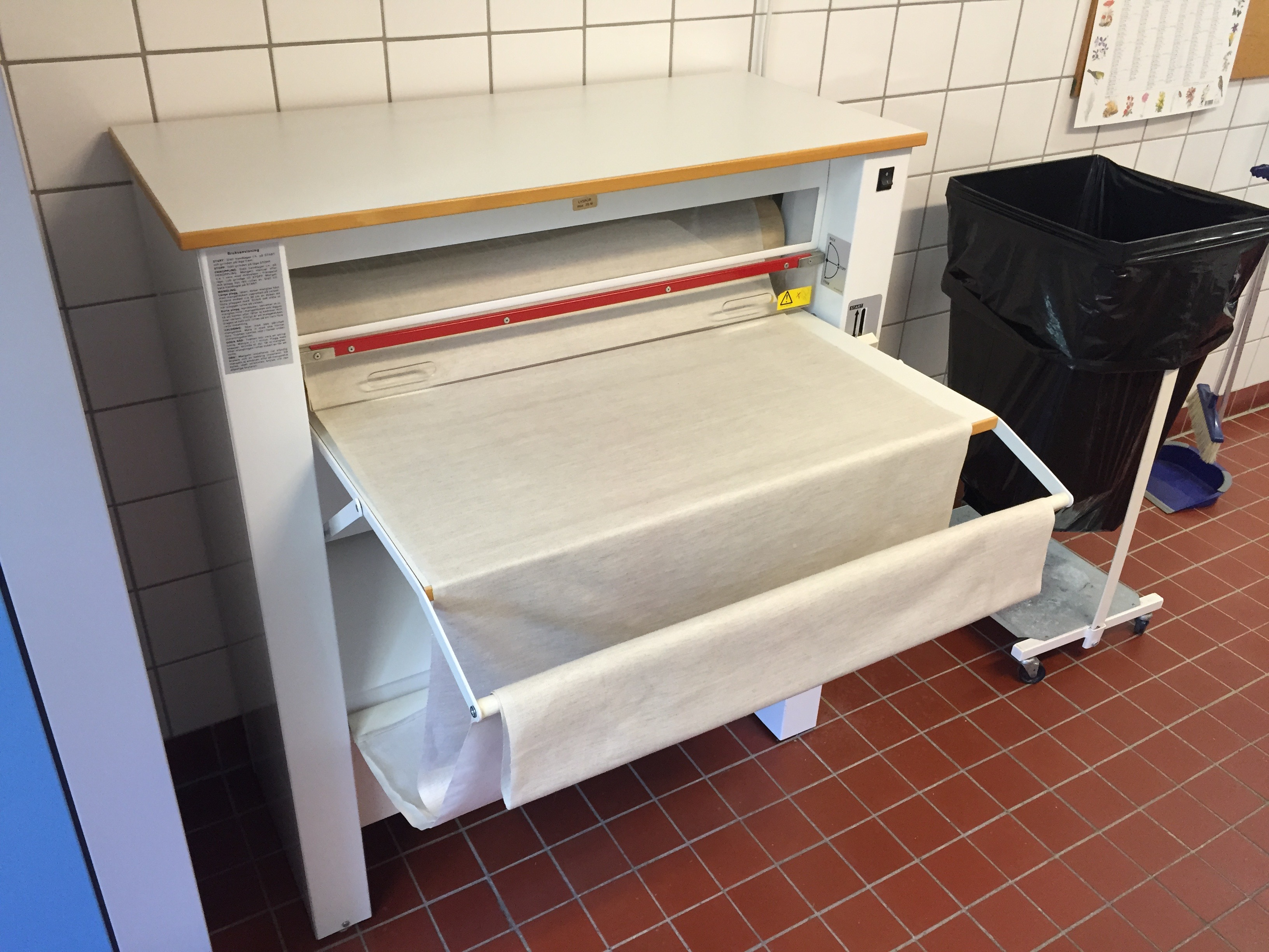 This is a modern mangle found in a laundry room in Sweden. It's electric and, unfortunately, unbranded.